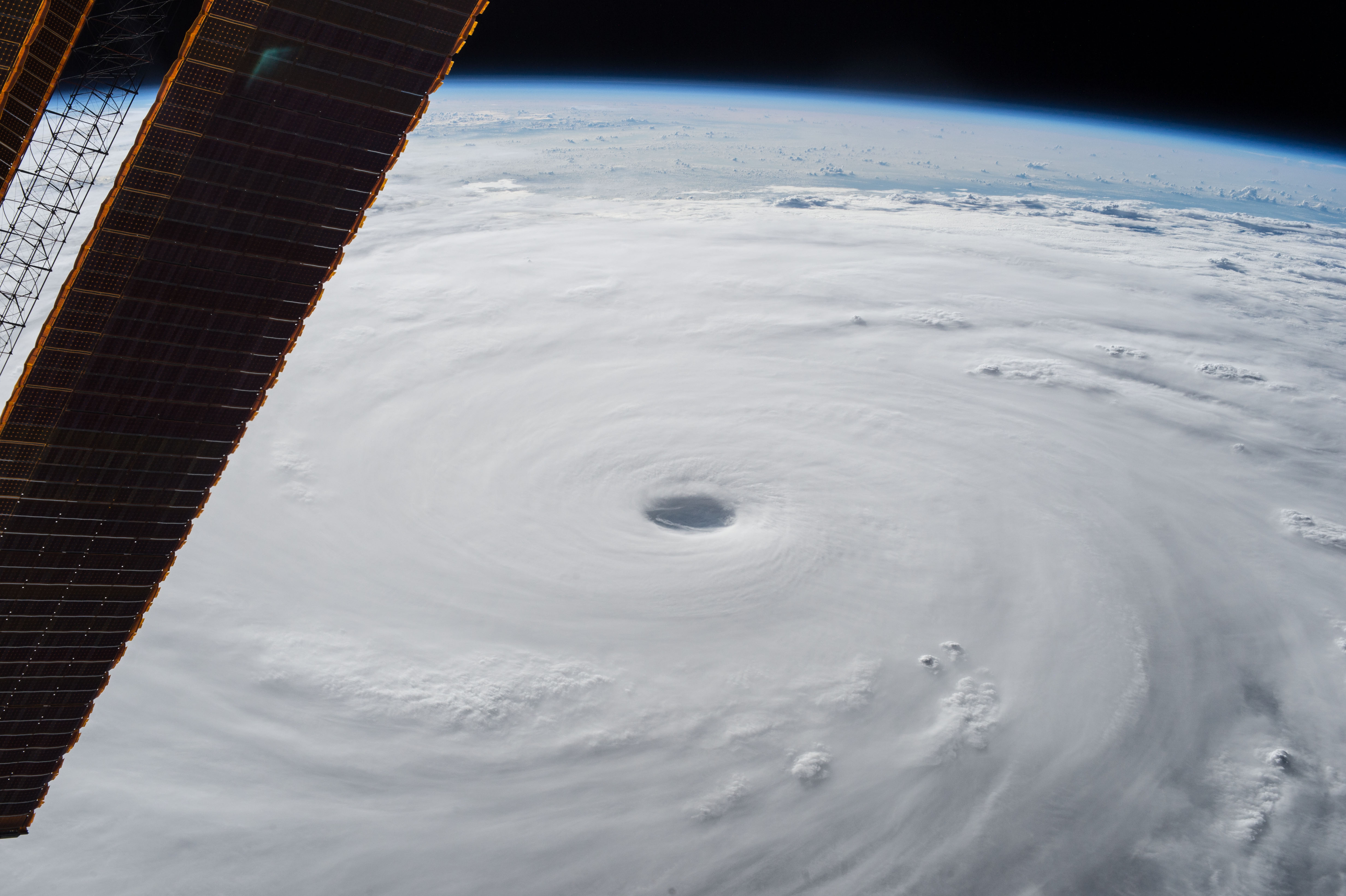 Typhoon Soudelor photographed from the International Space Station on Aug. 4, 2015 while the storm was traveling in the western Pacific. At the time it was photographed, the storm was reported to have sustained winds of more than 160 mph.